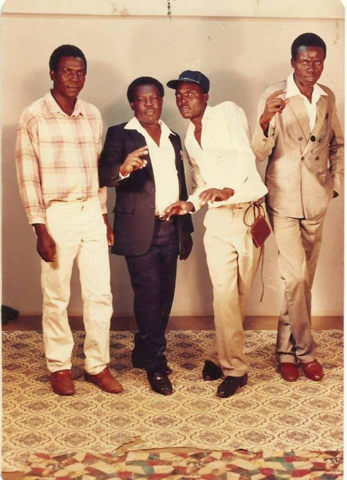 Okatch Biggy and other Orch. Super Heka Heka band members.